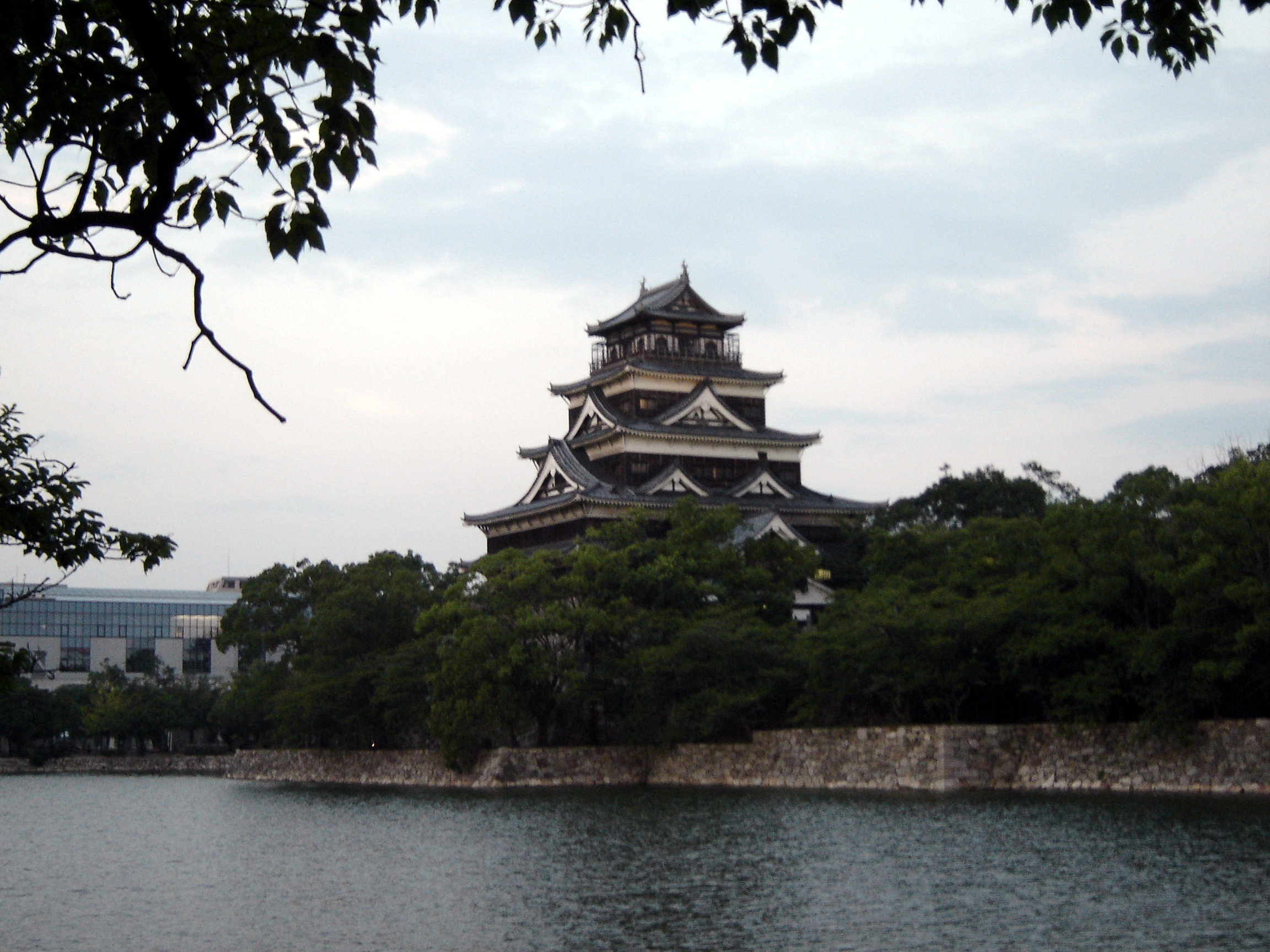 Hiroshima Castle. View of Hiroshima Castle